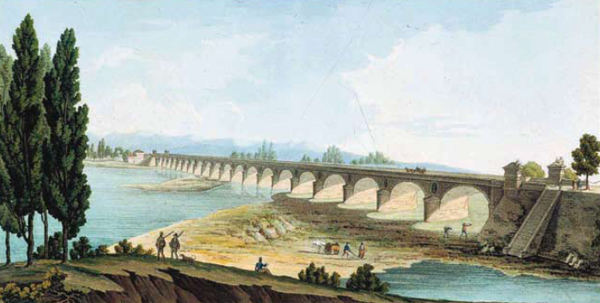 Taro Bridge (1819), Province of Parma, Italy